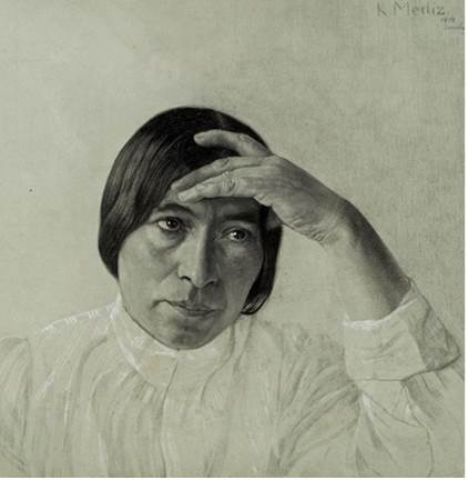 Posthumous portrait of Austrian painter, Emilie Mediz-Pelikan, by her husband, Karl